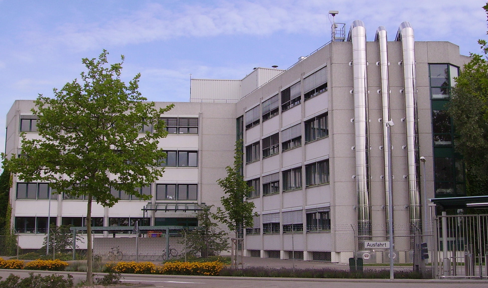 BASF Agrarzentrum, view of Limburgerhof, Germany